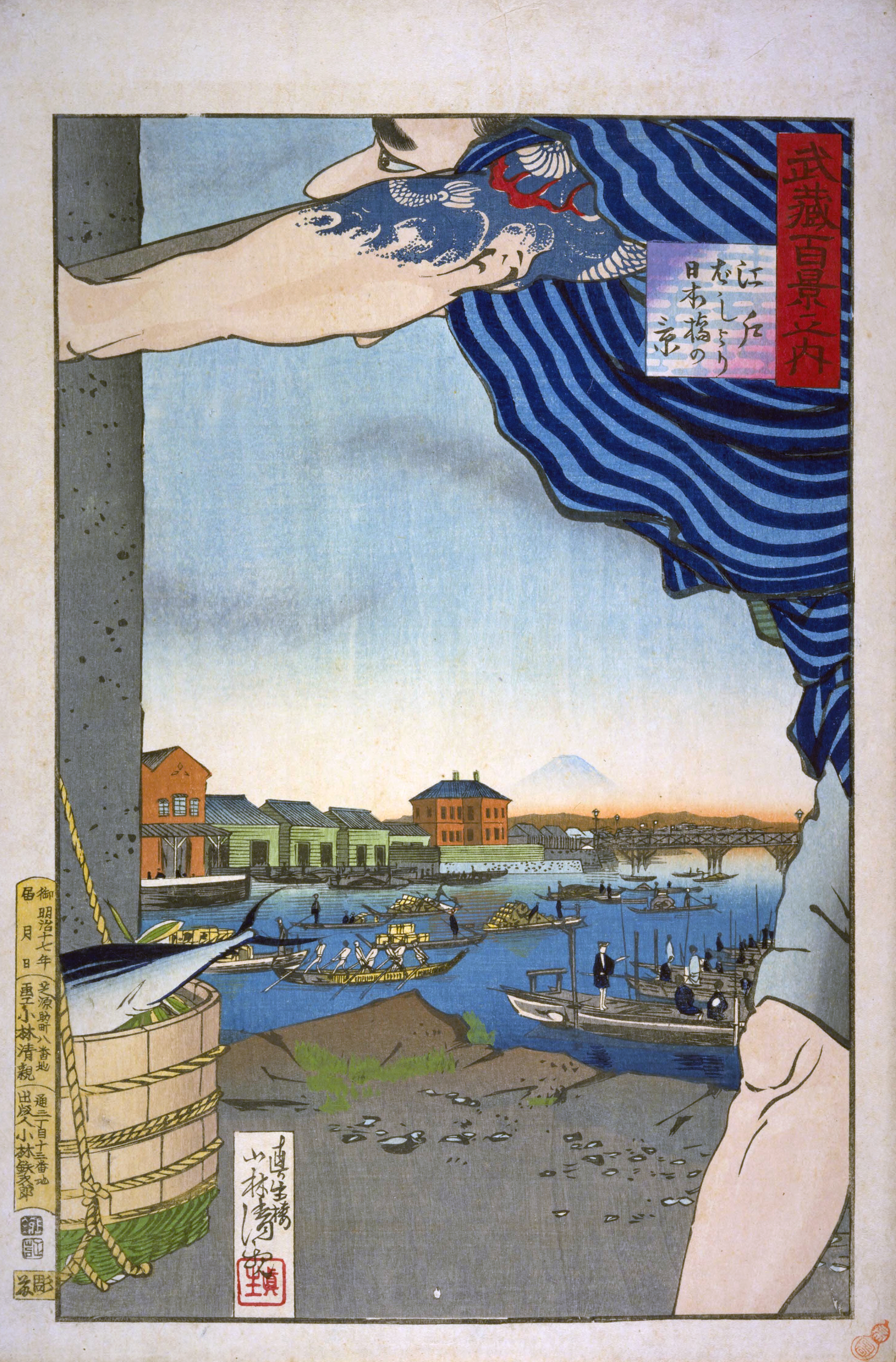 Drawn Fish Merchant Too Large.